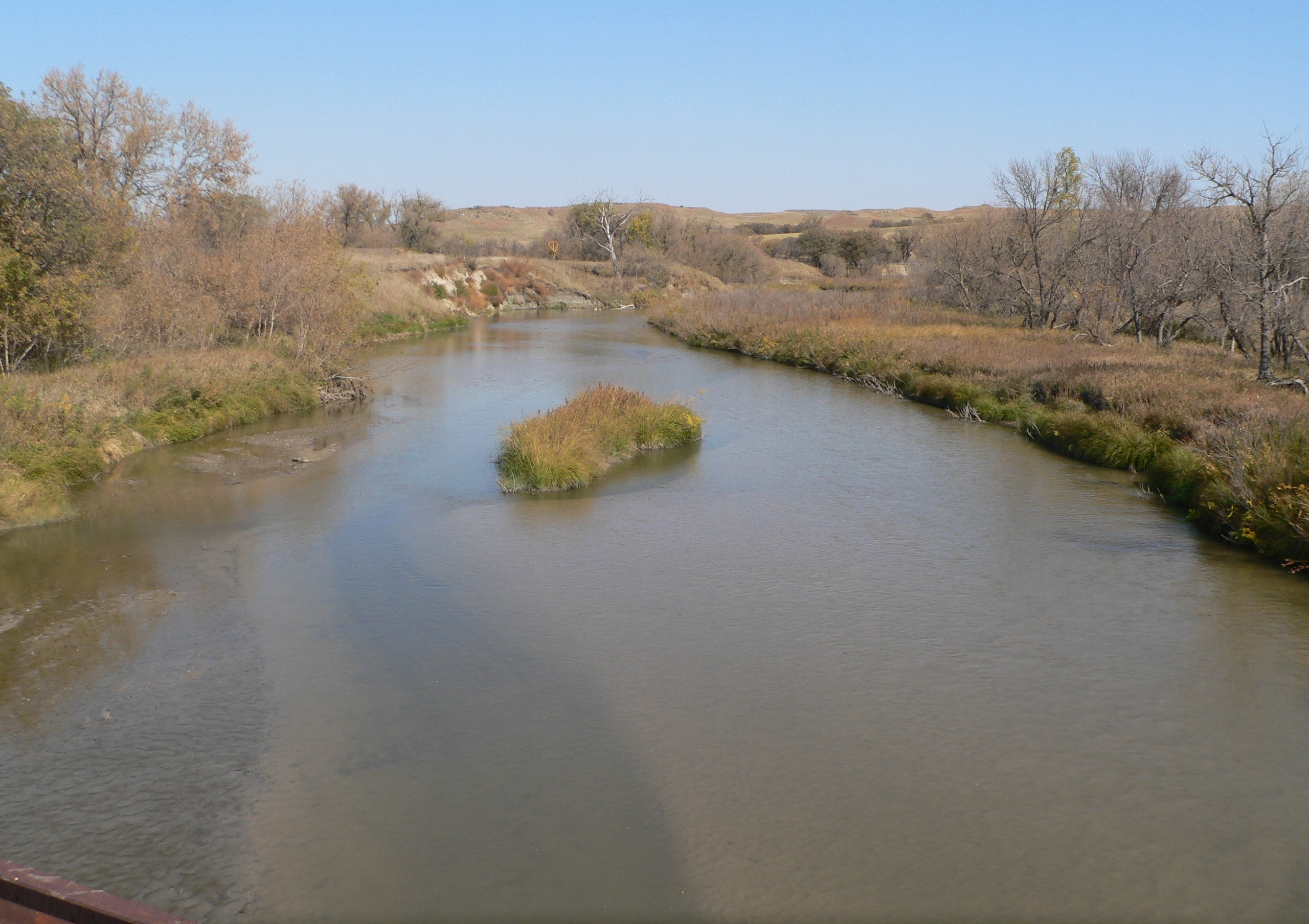 Keya Paha River, seen looking downstream from the Lewis Bridge, located near the state line separating Keya Paha County, Nebraska from Tripp County, South Dakota. At the bridge, the river runs roughly from southwest to northeast.